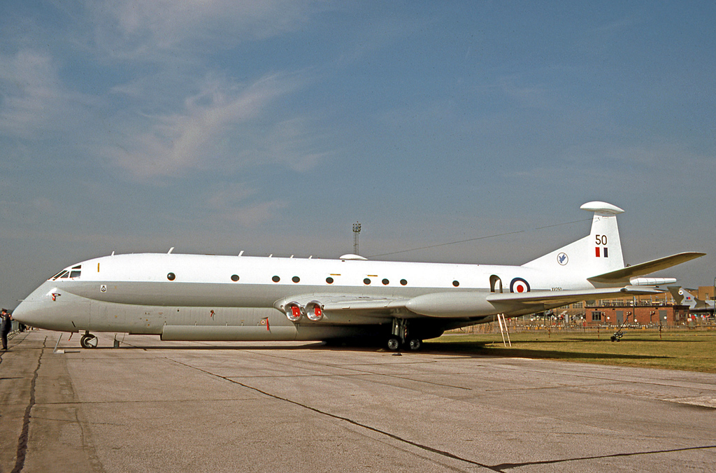 HS/BAE Nimrod MR.1 XV250 of 201 Squadron RAF Kinloss at RAF Finningley in 1977